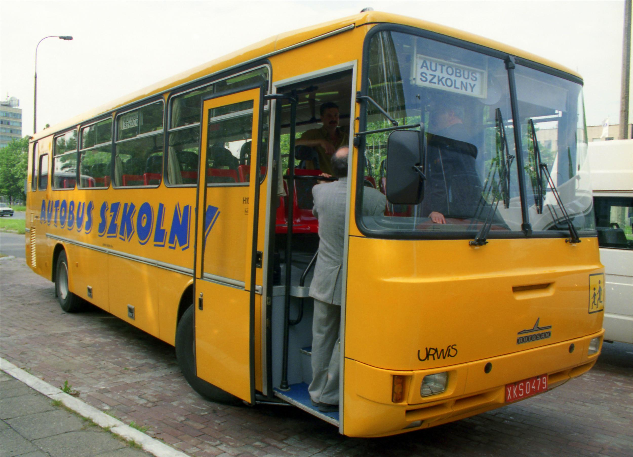 Autosan H10-10S "Urwis" school bus in Poland. Built 1999.